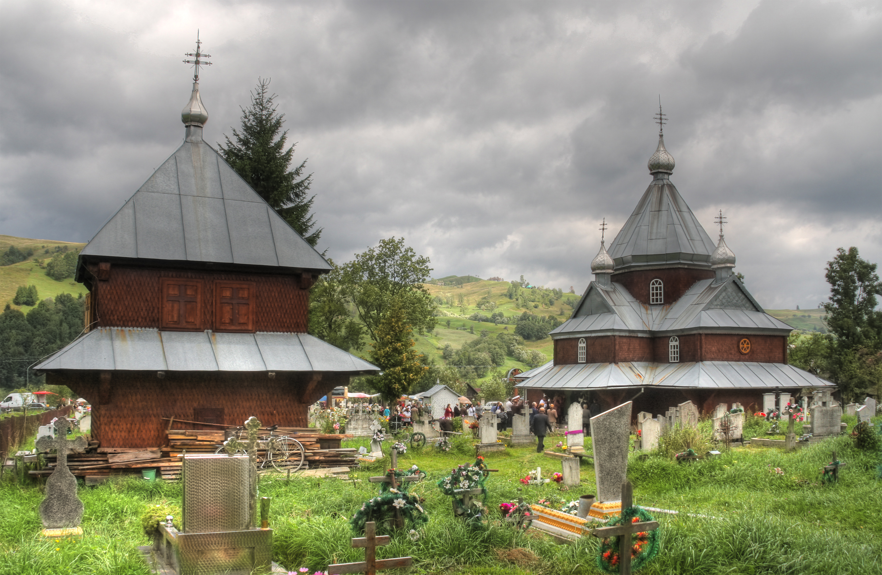 Church of the Transfiguration, Yasinia near Lazeschyna, Rakhiv Raion, Zakarpattia Oblast, Ukraine